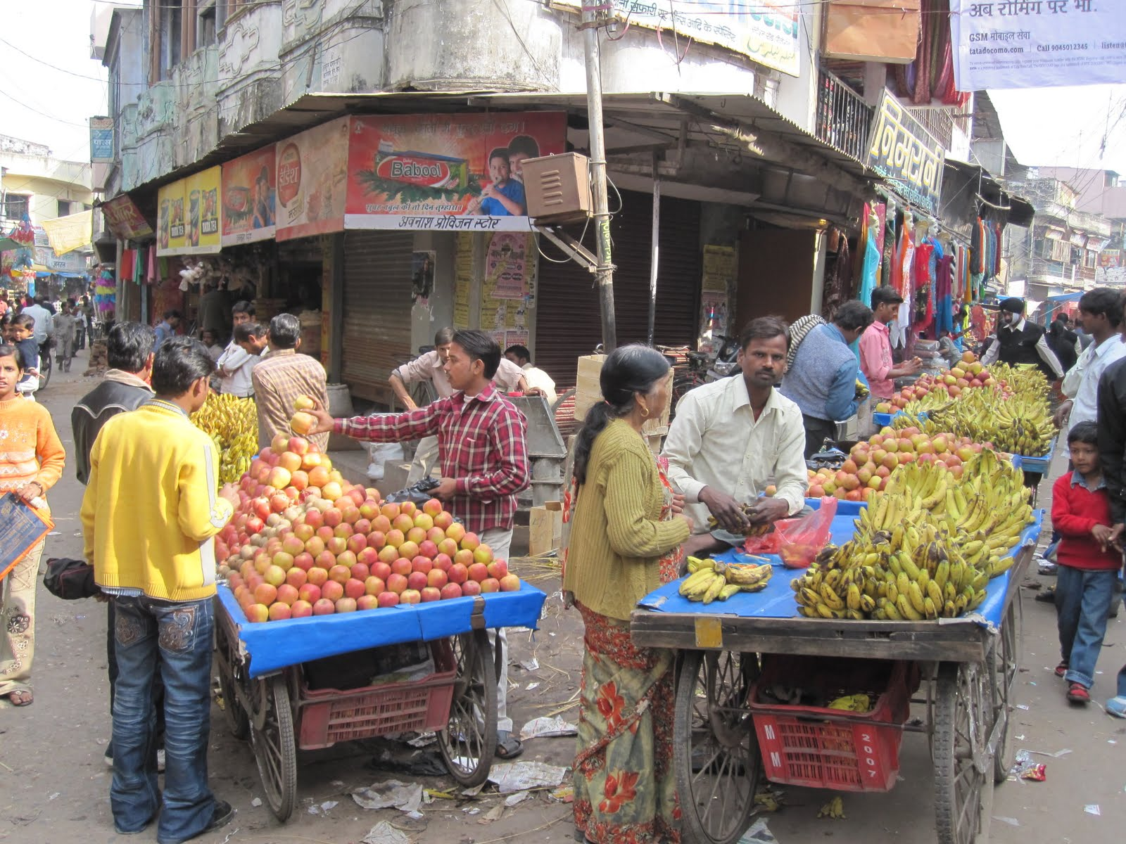 Busy Station Road and Vendors